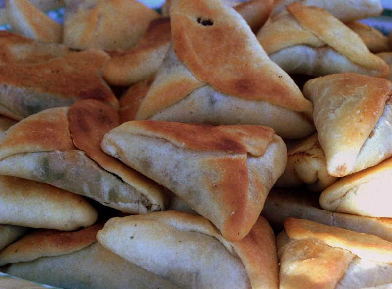 People of Israel